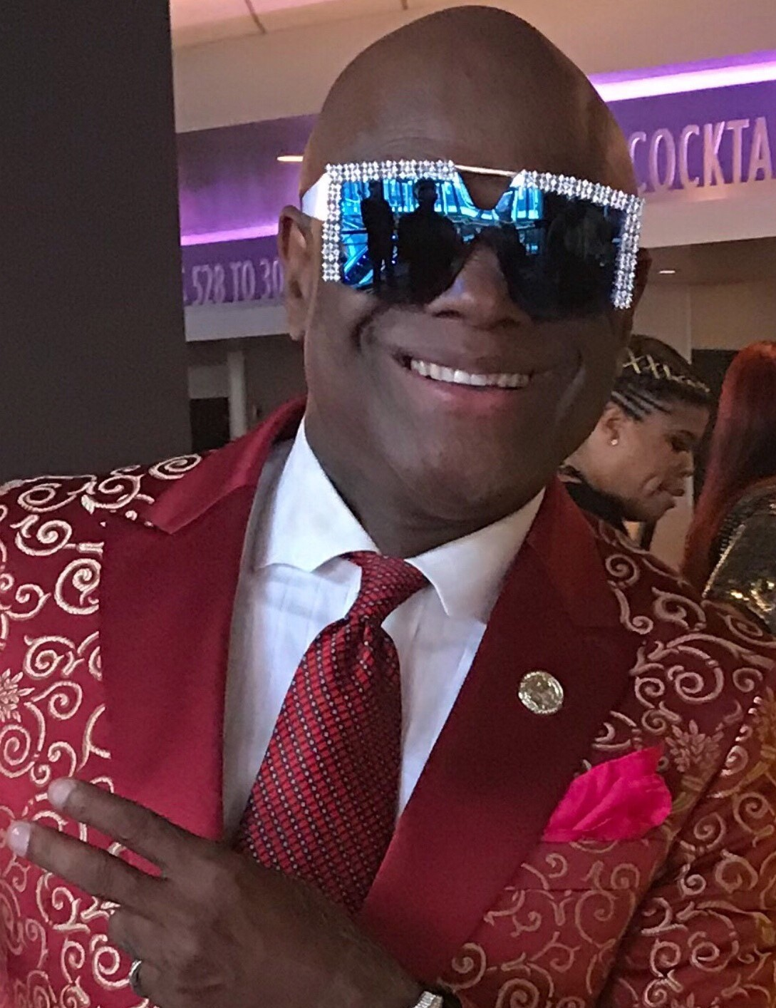 Image of comedian Michael Colyar